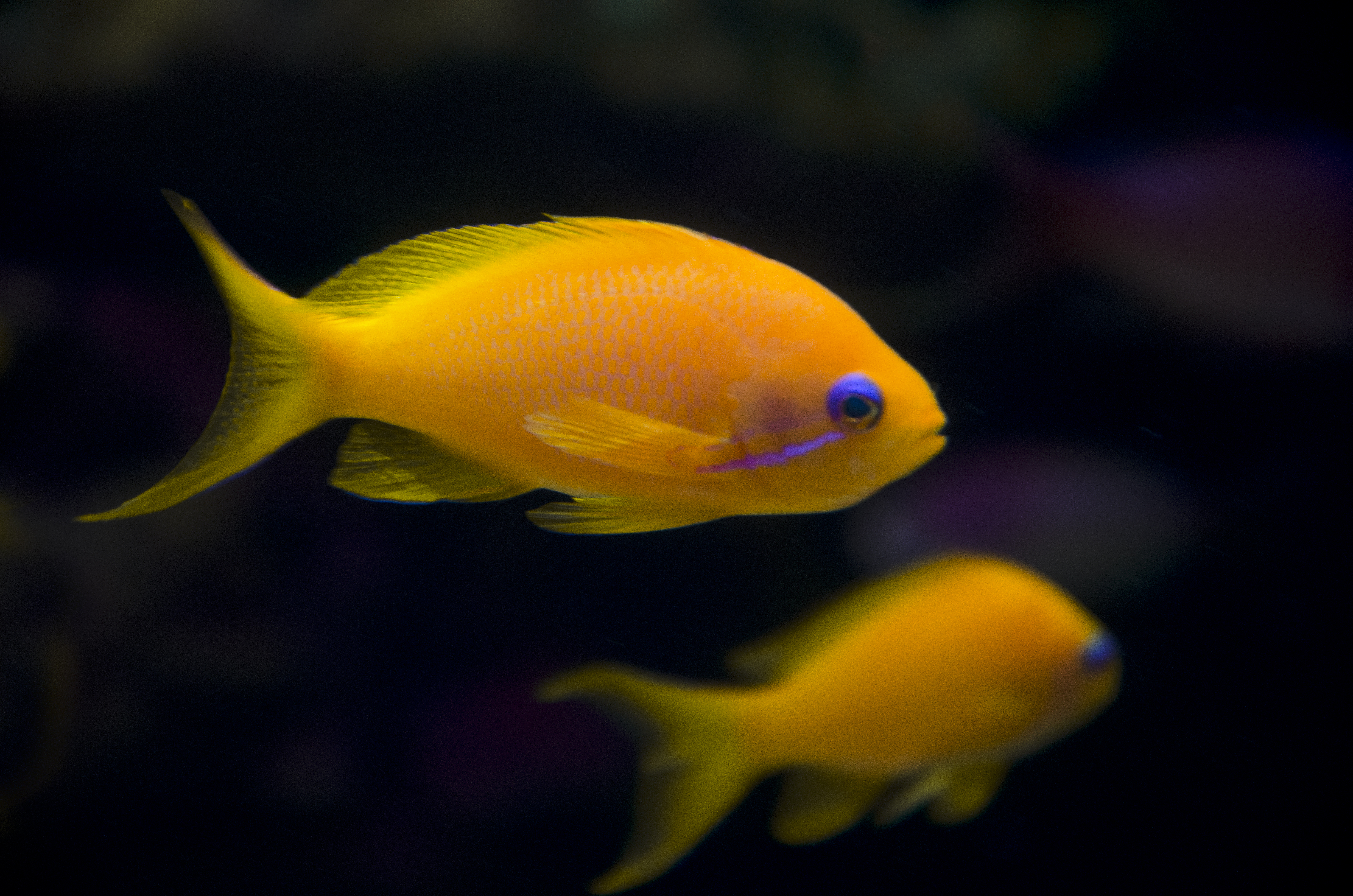 Pseudanthias squamipinnis, Ushaka Sea world